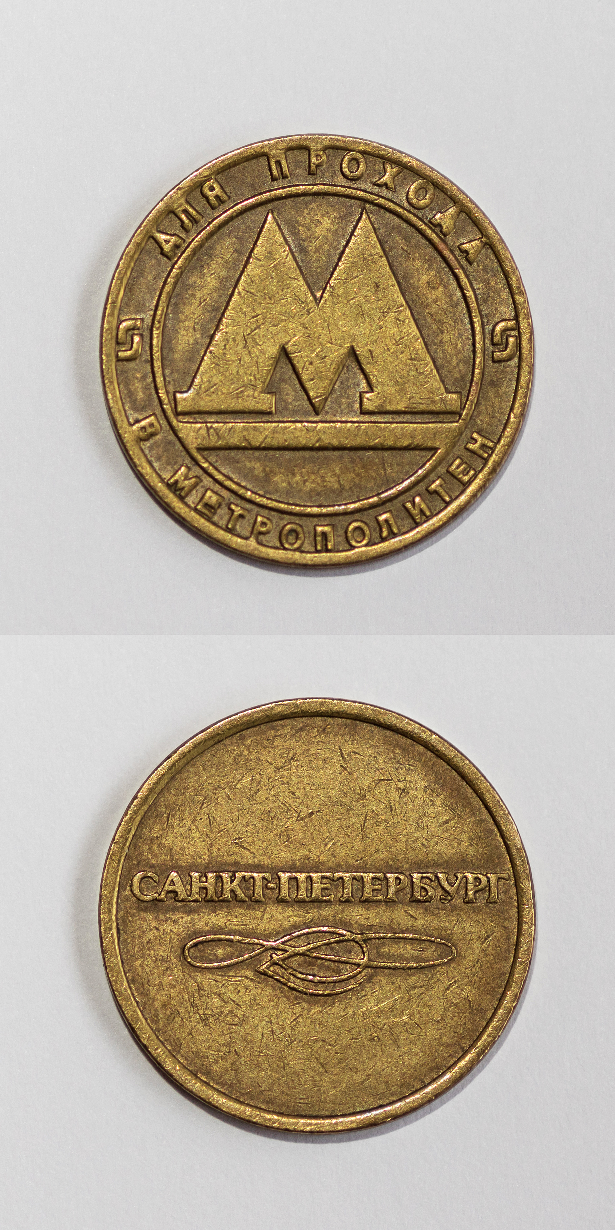 A token of Saint Petersburg Metro. Front and rear view.